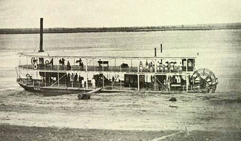 Hata (1988) of Irrawaddy Flotilla Company (IFC) in Burma. Built in 1988 by William Denny & Bros, Dumbarton. Date launched: 14/12/1887 Shipped. Tonnage: 81 grt / 69 nrt Length: 100.0 ft Breadth: 24.0 ft Depth: 4.0 ft Engine builder: William Denny & Bros, Dumbarton Sternwheel paddle steamer. Compound/horizontal. (13.75 & 24.5 - 45)in. jet condensing. 33nhp. 160lbs. Paddle divided in the centre for the air pump rod. 10 double floats. First owner: Irrawaddy Flotilla Co.Ltd. Rangoon. Burma. First port of register: Glasgow Sternwheel river steamer for Chindwin River service. Shipped 23/12/1887. Machinery shipped 08/02/1888. 1914 dismantled. 02/1915 certificate cancelled. Denny List - Used as a pontoon by the District Commissioner at Bhamo.